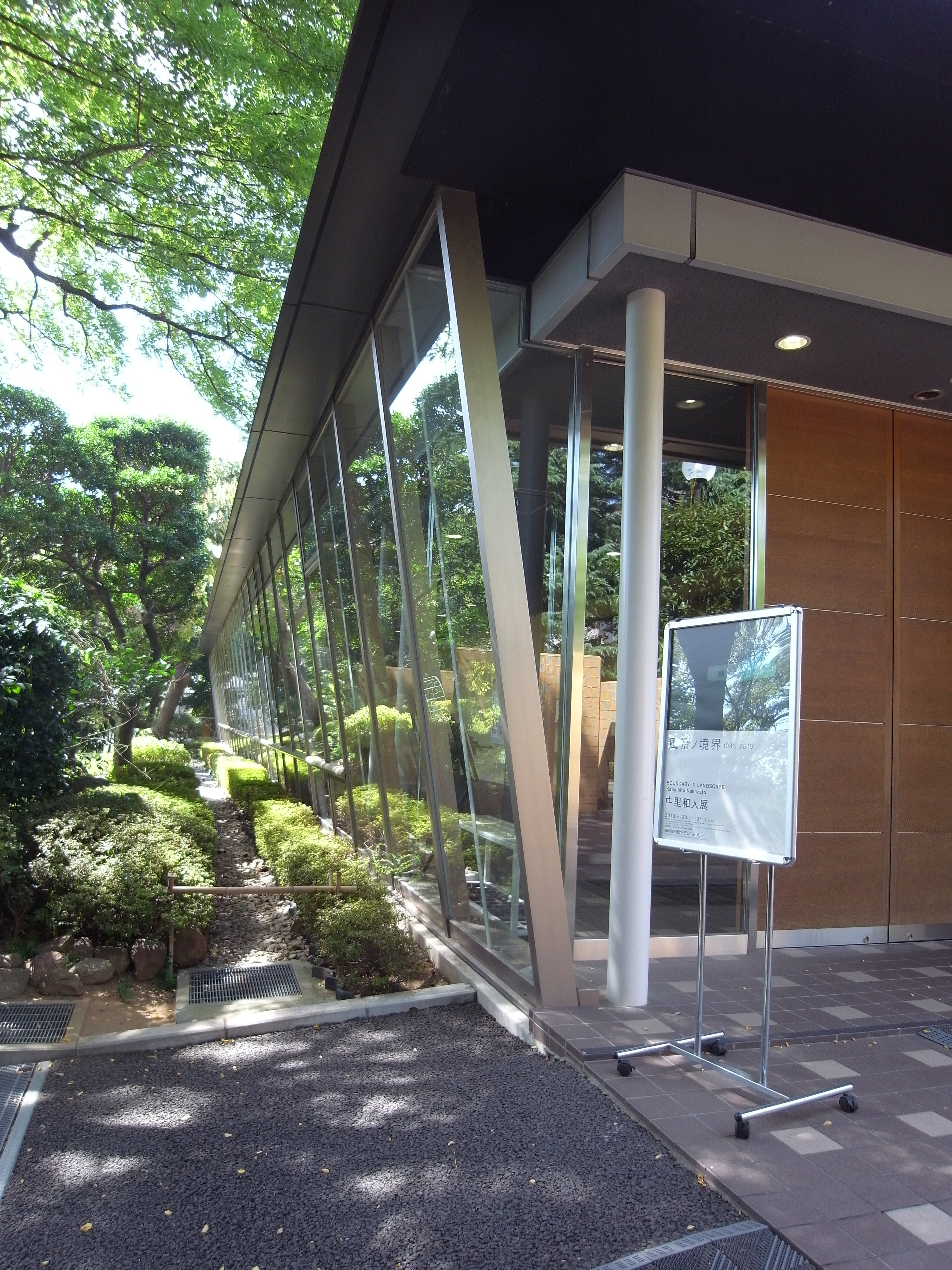 The Yoshizawa Garden Gallery, in Ichikawa (Chiba), showing the photo exhibition "Fūkei no kyōkai" (風景ノ境界, "Boundary in Landscape"), works 1983–2010 by Katsuhito Nakazato (中里和人)